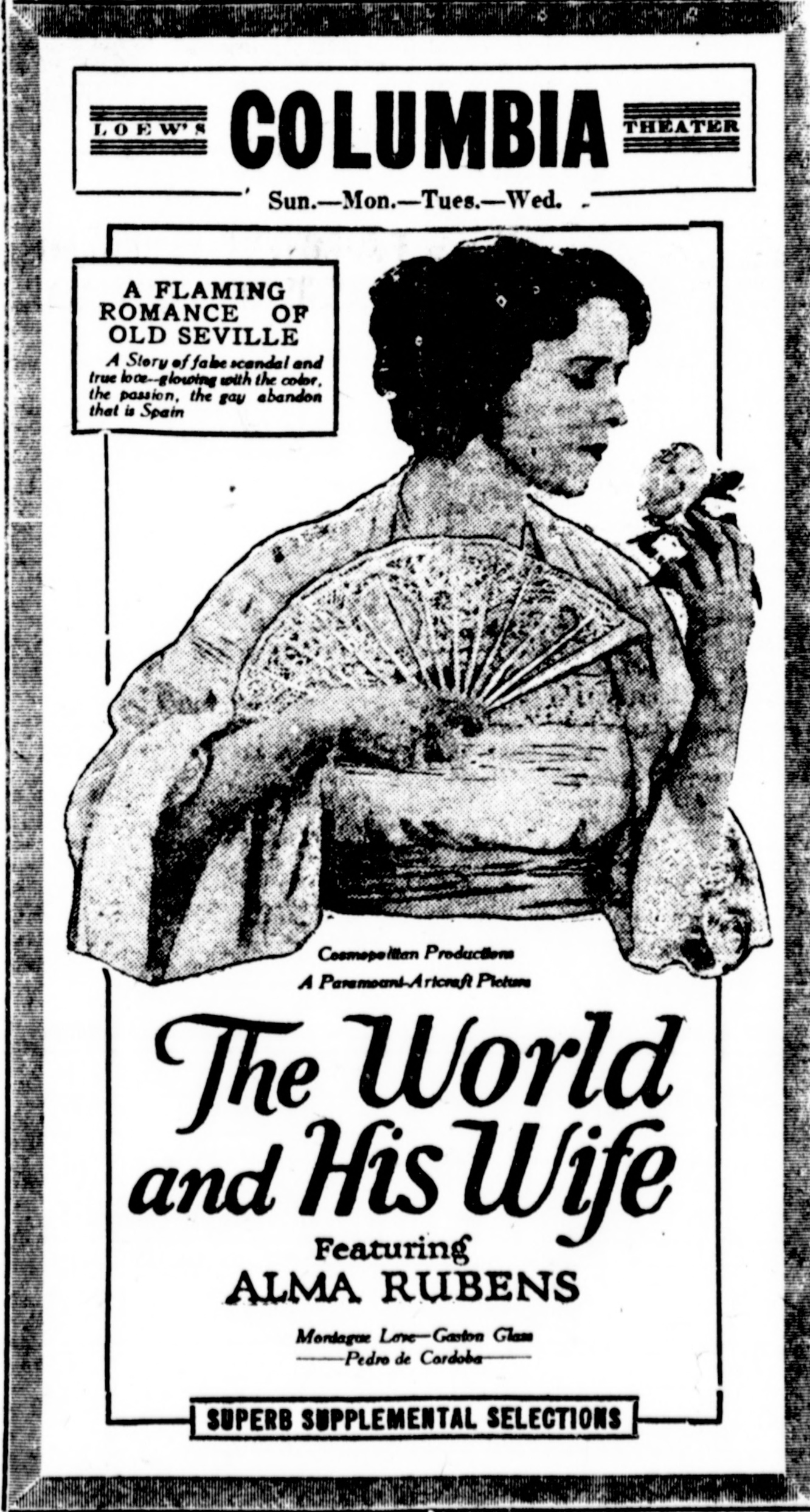 The World and His Wife is a lost American 1920 silent drama film produced by Cosmopolitan Productions and distributed through Paramount Pictures. This is a newspaper advertisement for the film.